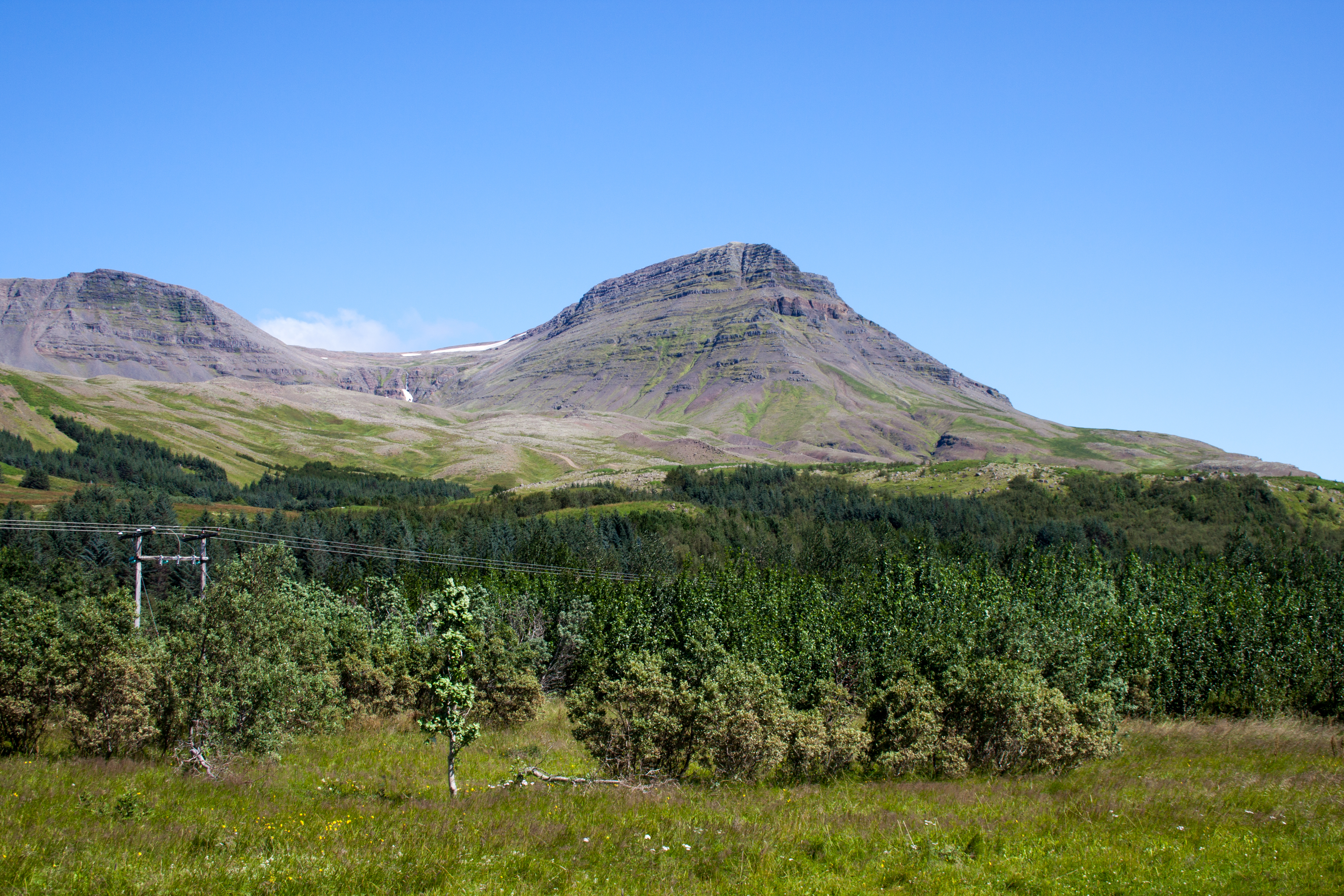 New woods north of Reykjavík, at the Esja mountain, on the Route No. 1.